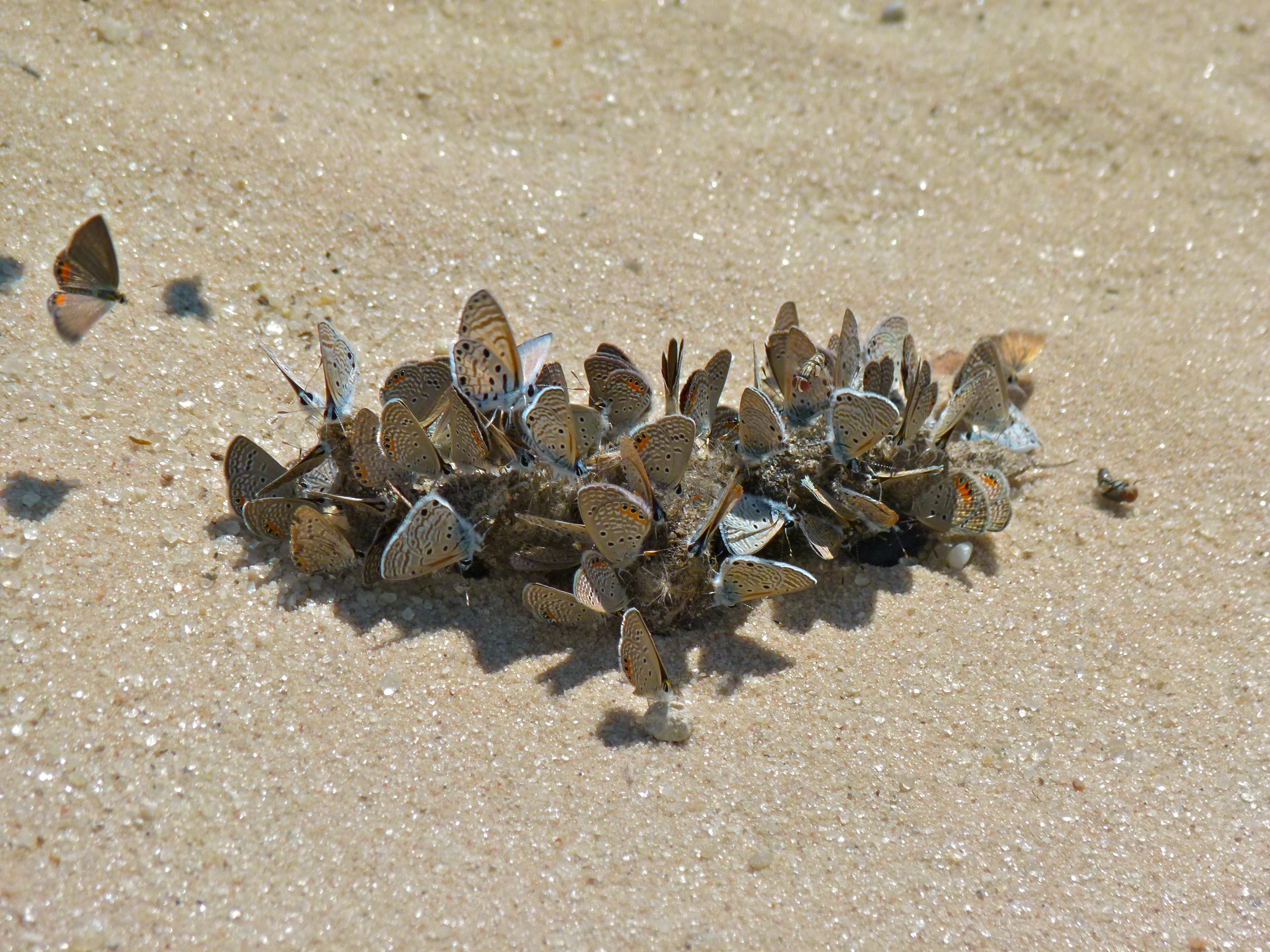 Nossob River Bed, Kgalagadi Transfrontier Park, SOUTH AFRICA